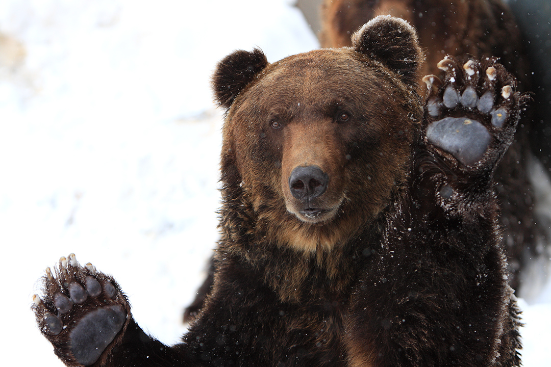 Ezo Brown Bear. Showa shinzan kumabokujo. Sobetsu-town, Hokkaido, Japan.